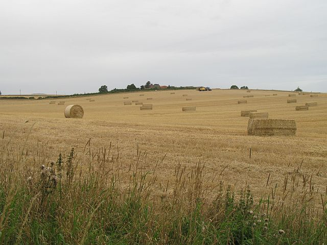 A variety of bales, Spottmuir Both large "square" and round bales in this field, probably because of a rain interruption. This is the site of the Battle of Dunbar (1296) at the start of the Wars of Independence, and quite significant as victory here for Edward I led to the end of the reign of John Balliol.